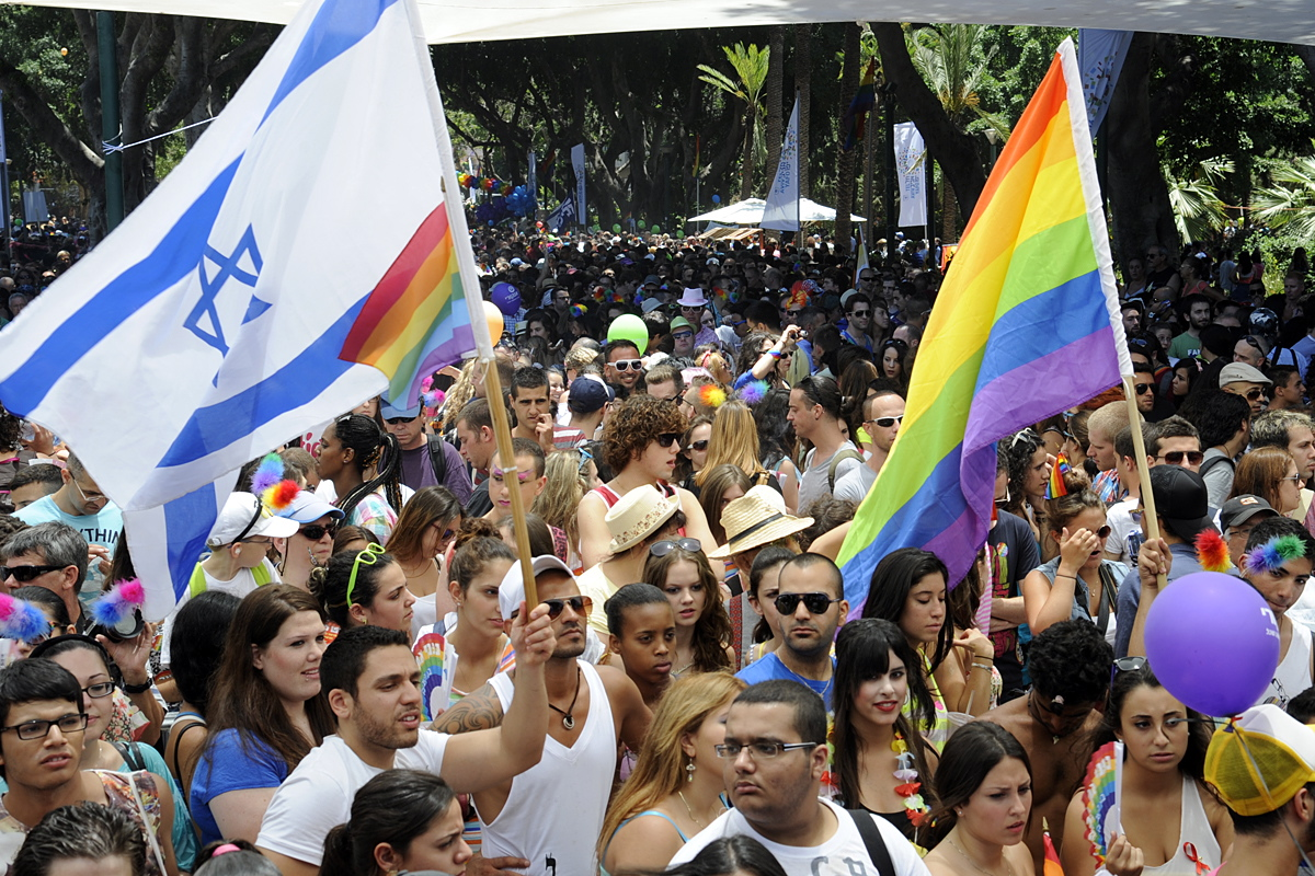 Ambassador Shapiro attended the Gay Pride Parade on Friday, June 8, 2012. In Gan Meir park, he met with several groups working for LGBT rights and answered questions from media about LGBT Human Rights. Prior to the kick-off of the parade, the Ambassador took to the main stage. Speaking to a crowd of thousands of marchers he emphasized the recent work of the U.S. government to raise awareness of LGBT rights around the world and acknowledged the achievements of the Israeli LGBT community to gain equal rights. After the speech, he met Embassy personnel marching in the parade with diplomats from other missions in Tel Aviv and joined them along the parade route.